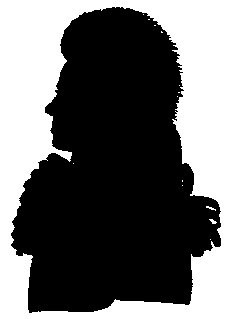 Silhouette of Ulrich Fredrich von Cappelen (1770-1820), Porsgrunn, Norway